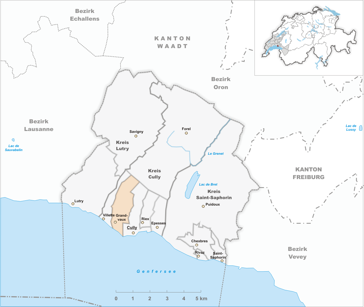 Municipality Grandvaux